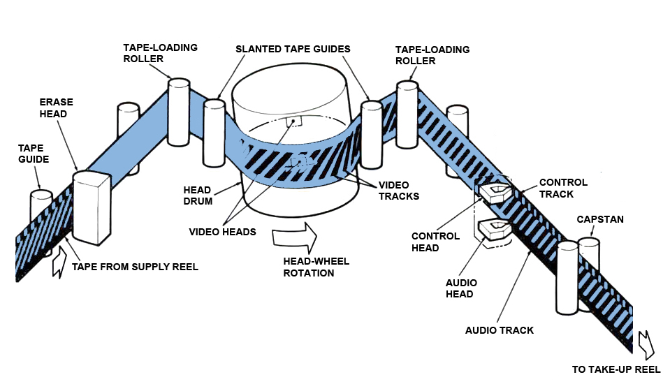 This diagram demonstrates the M-loading system in VHS, and at the same time illustrates the diagonal helical scan process, as well as the placement of the audio and index information.